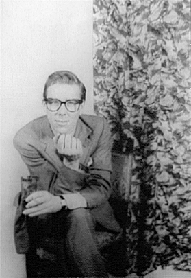 Antony Armstrong-Jones, 1st Earl of SnowdonAntony Armstrong-Jones, 1st Earl of Snowdon